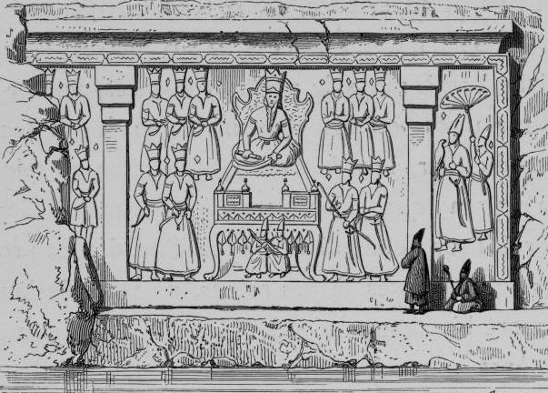 Relief of Rei